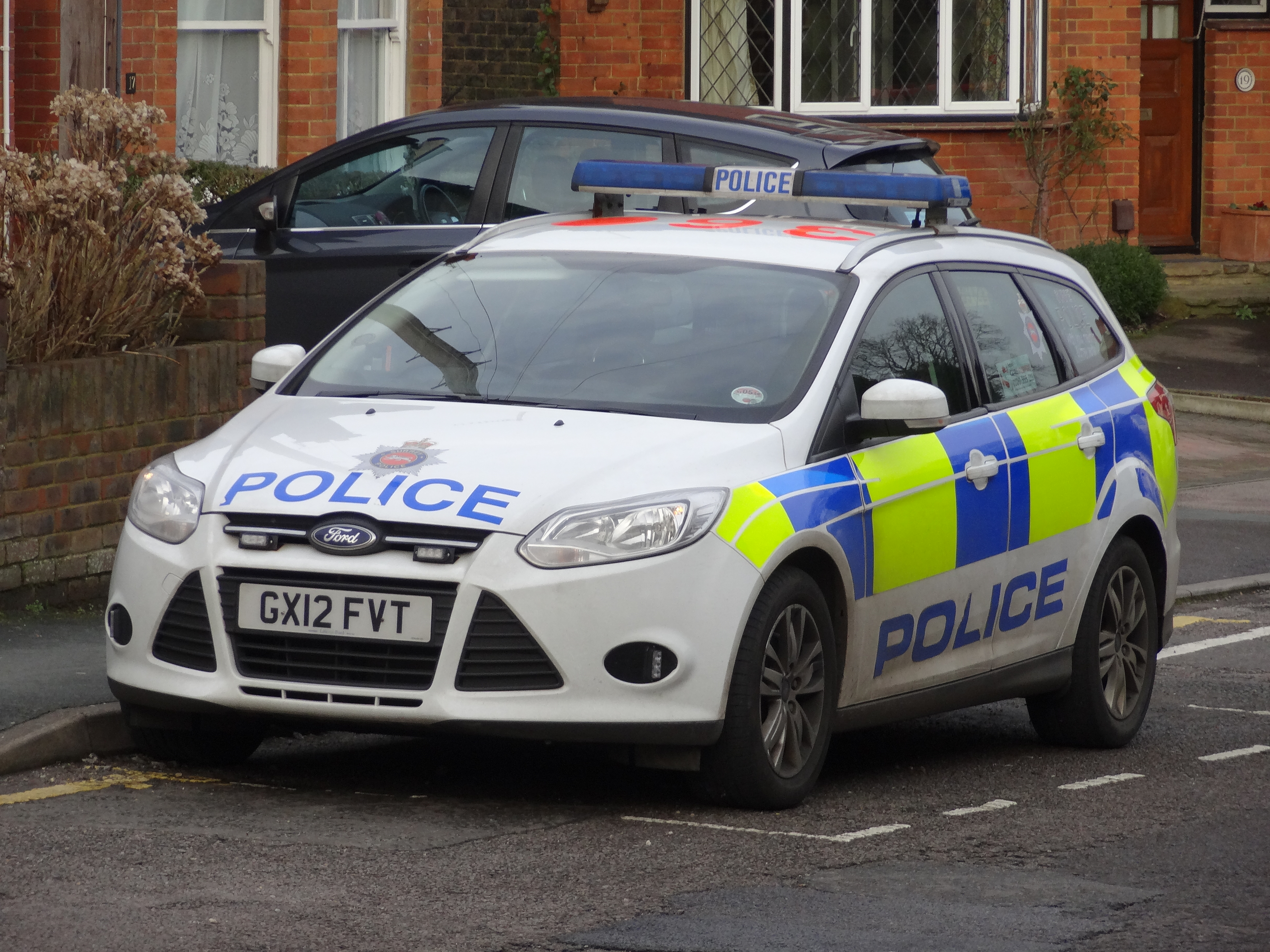 From BBC NEWS A 16-year-old boy has been arrested on suspicion of murder after a 17-year-old girl was found dead in Surrey. Officers found the body after being called to an address in Amy Road in Oxted just before 17:20 GMT on Friday. Officers from the Surrey and Sussex Major Crime Team said they thought the pair knew each other. The girl's family have been told of her death, a Surrey Police spokesman said. The boy was being kept in police custody. Neighbours said a taped-off road in the town was "very unusual". Mavis Plumridge, who lives on Amy Road, said: "When I came home last night I saw police there but you don't take a lot of notice. "It was only just now that… it gave me quite a funny turn. That doesn't happen in Oxted."